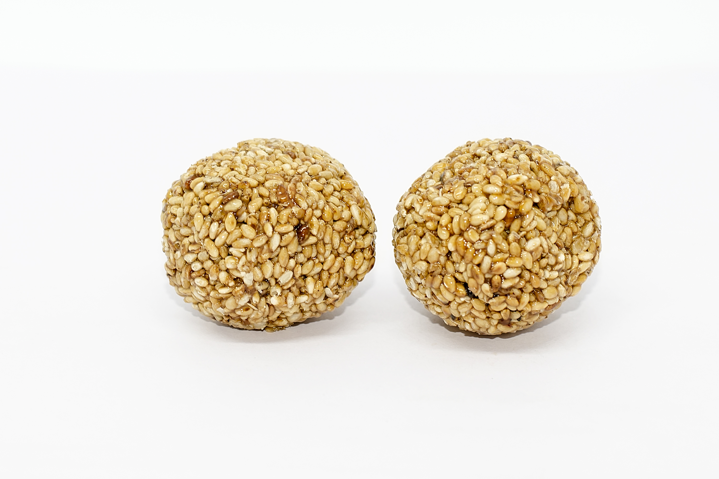 Sesame Seed Ball (Candy)